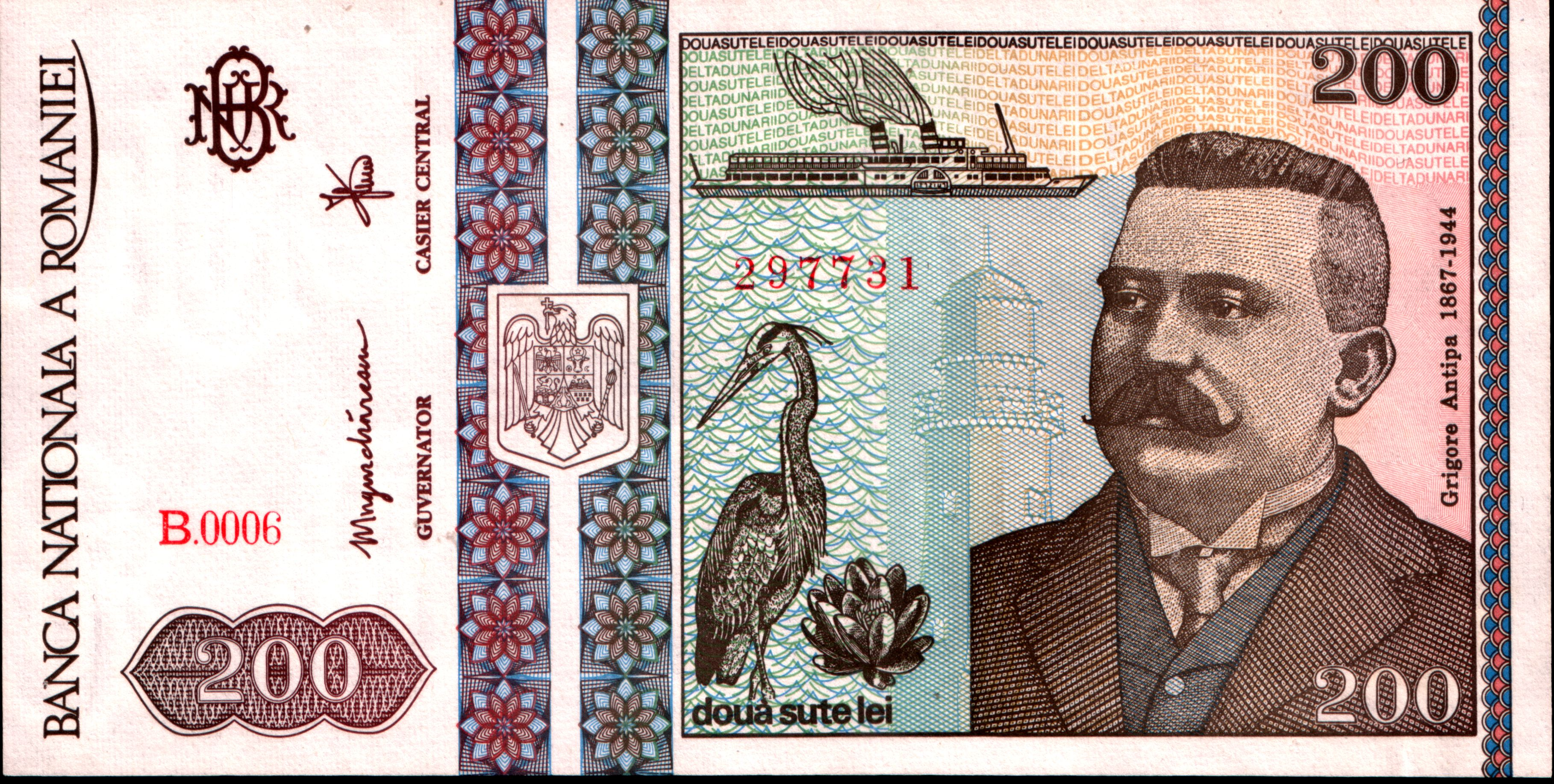 200 Romanian leu from 1992 - obverse